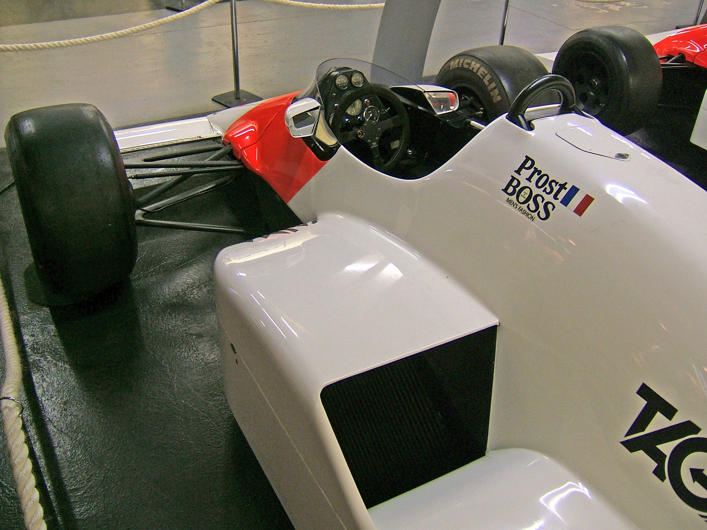 The cockpit of Alain Prost's 1984 McLaren MP4/2. In the Donington Grand Prix Collection museum, Leics., UK.